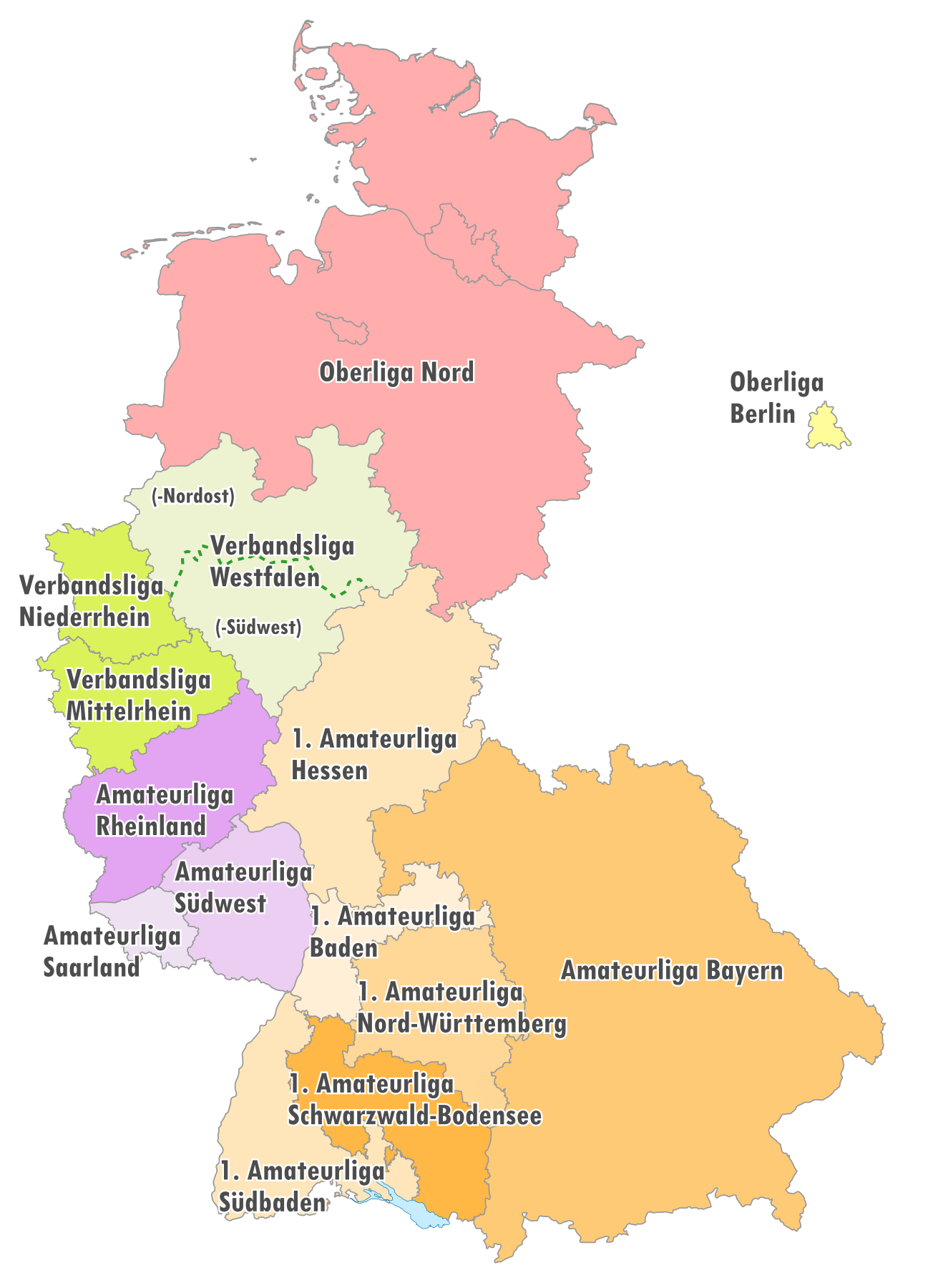 Map of German sub-regional soccer league, 1974-78